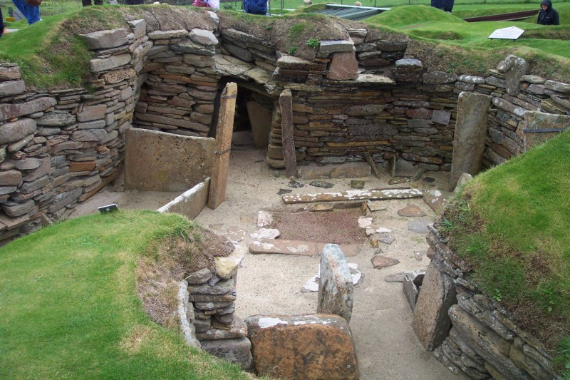 Neolithic excavations at Skara Brae on Orkney in Scotland.